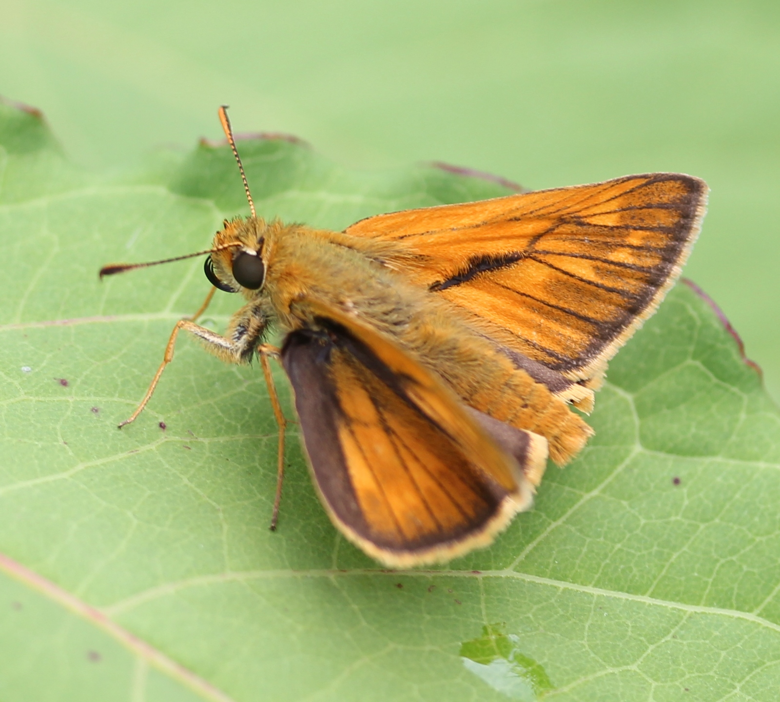 Ochlodes venatus, male, in Mount Ibuki, Ibigawa, Gifu prefecture, Japan.